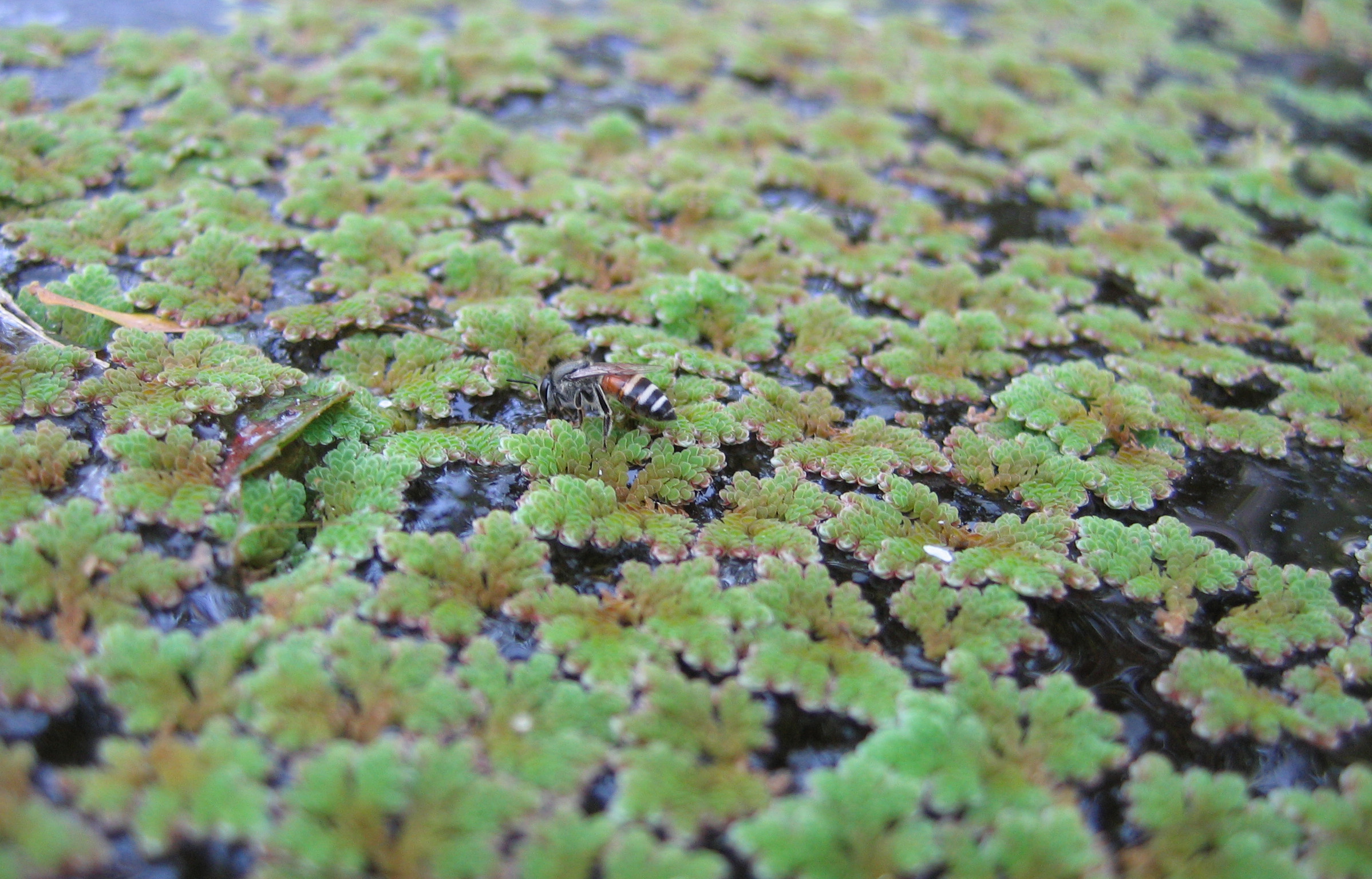 Bee on a azola plant